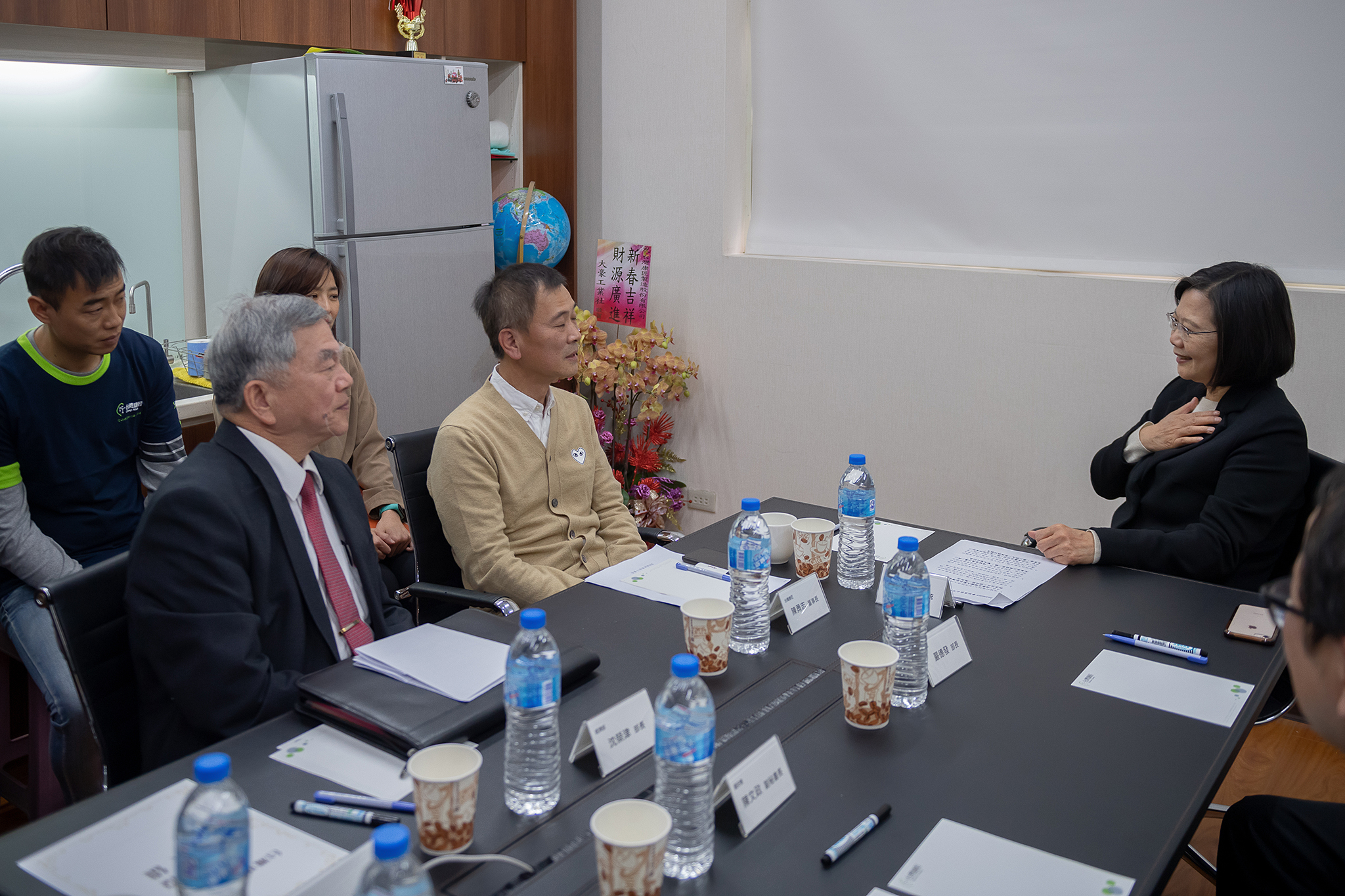 Official Photo by Makoto Lin / Office of the President